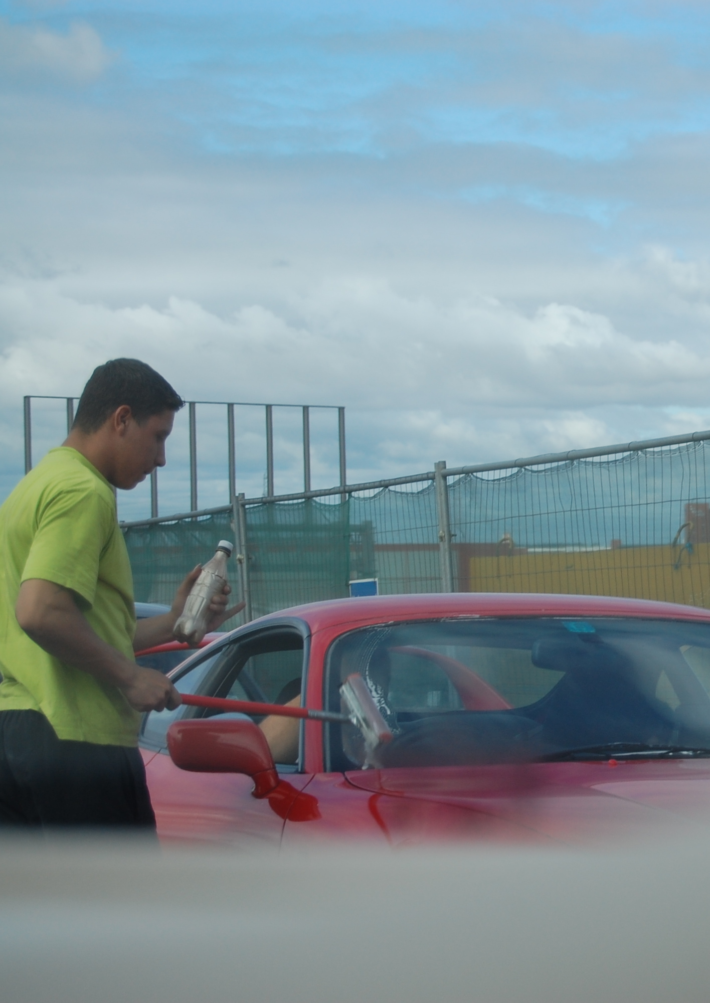 Squeegee man, an individual who, washcloth and squeegee in hand, cleans windshields of cars stopped in traffic and then solicits money from drivers.